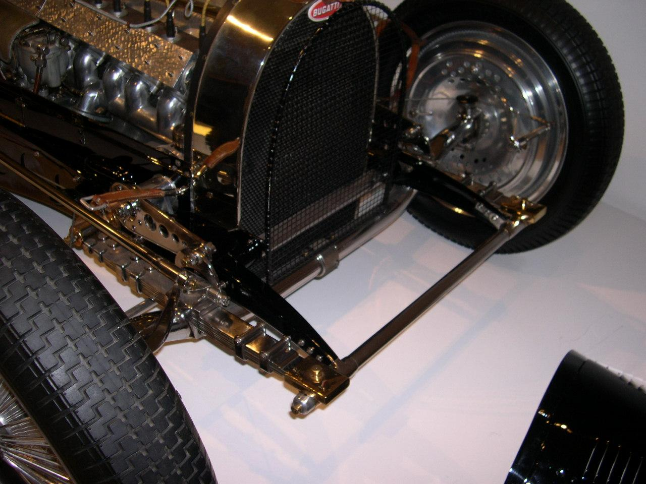 1933 Bugatti Type 59 Grand Prix From the Ralph Lauren collection on display at the Boston Museum of Fine Arts. Photo taken in 2005.